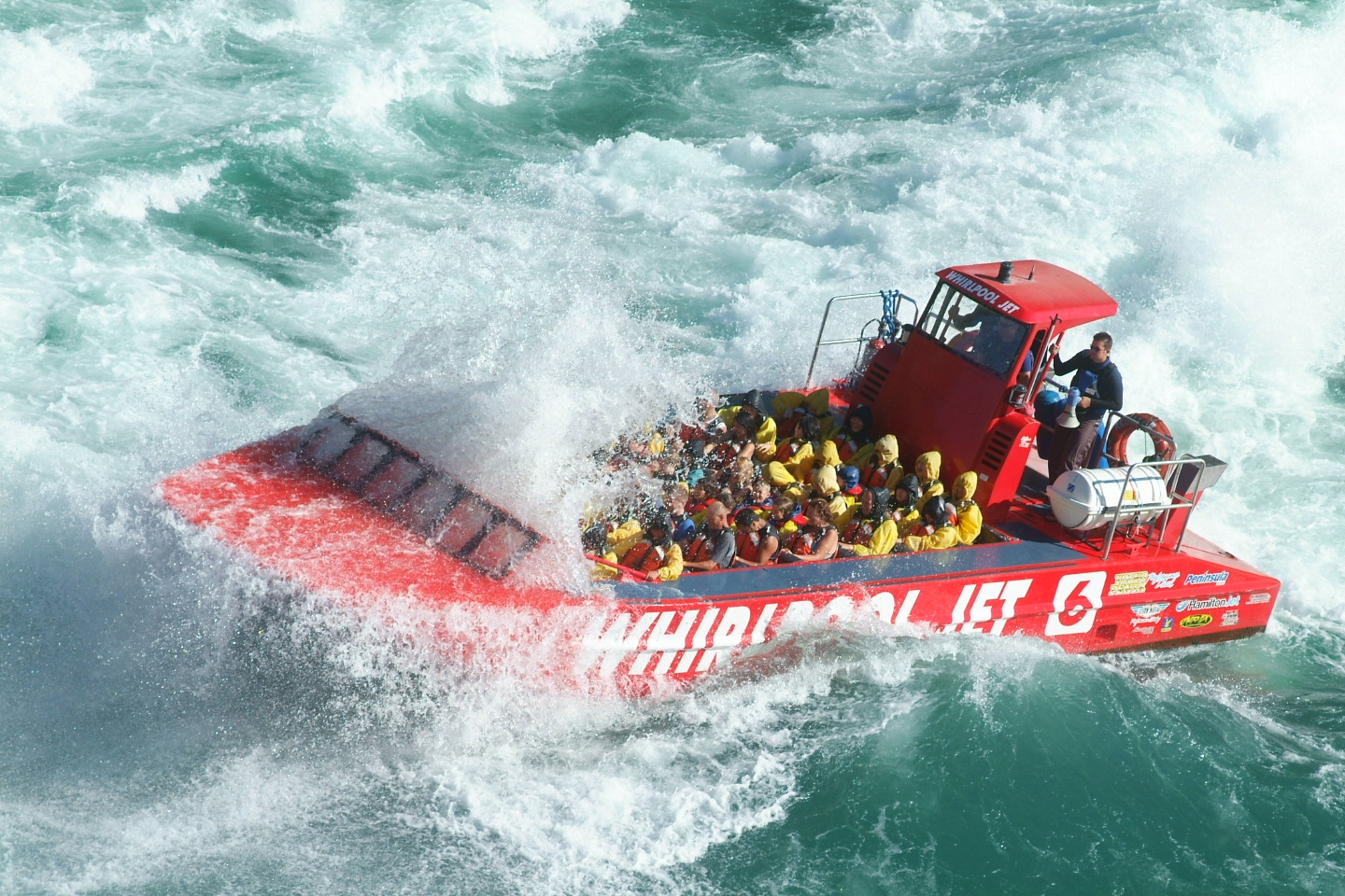 Whirlpool Jet Boat Tours in Devil's Hole Rapids in Niagara River Gorge